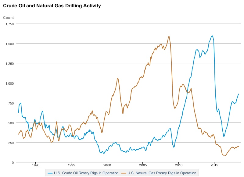 And natural gas oil rig count